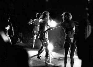 Claude François